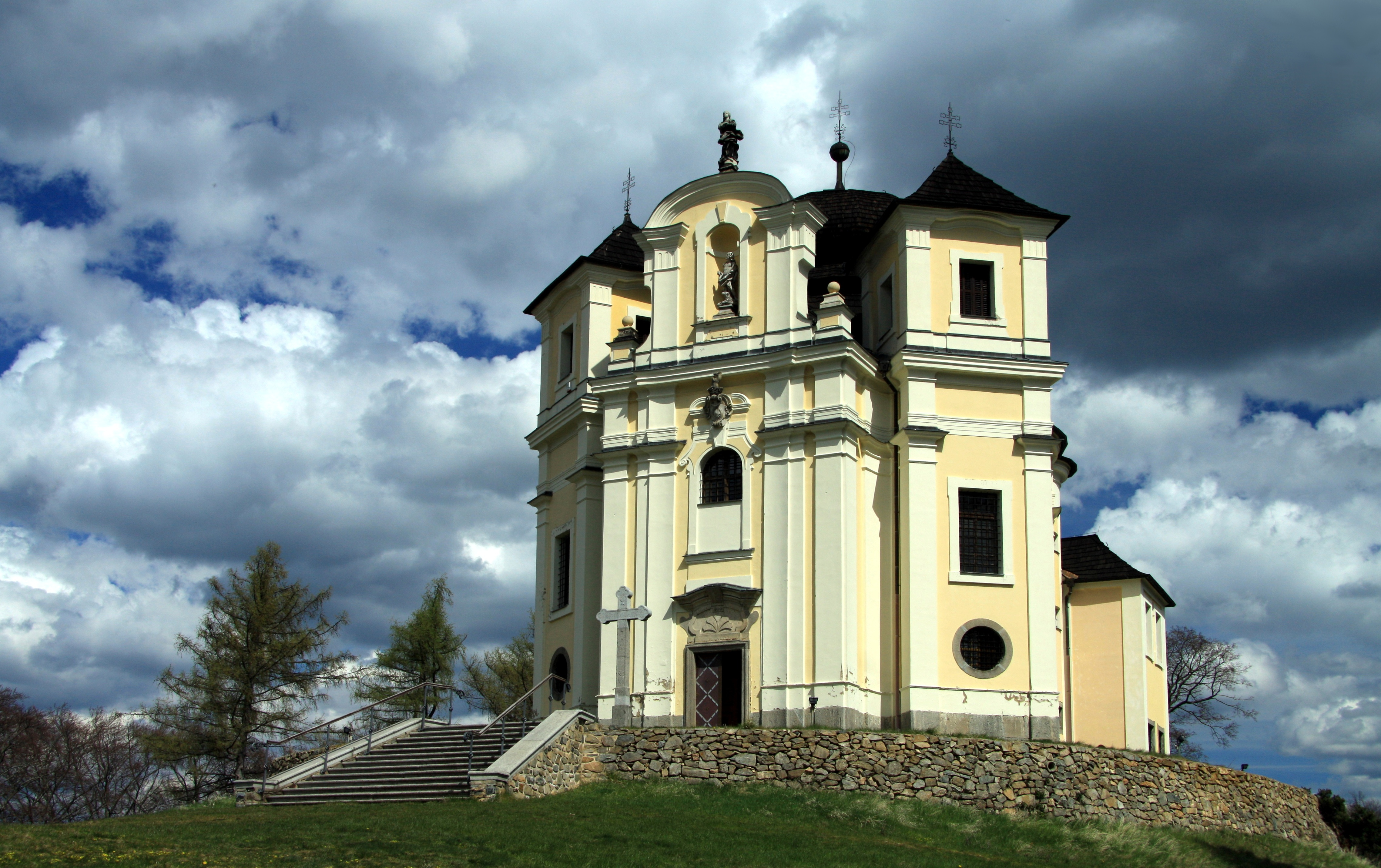 Church on top of Maková hora near Smolotely village in Příbram District, Czech Republic